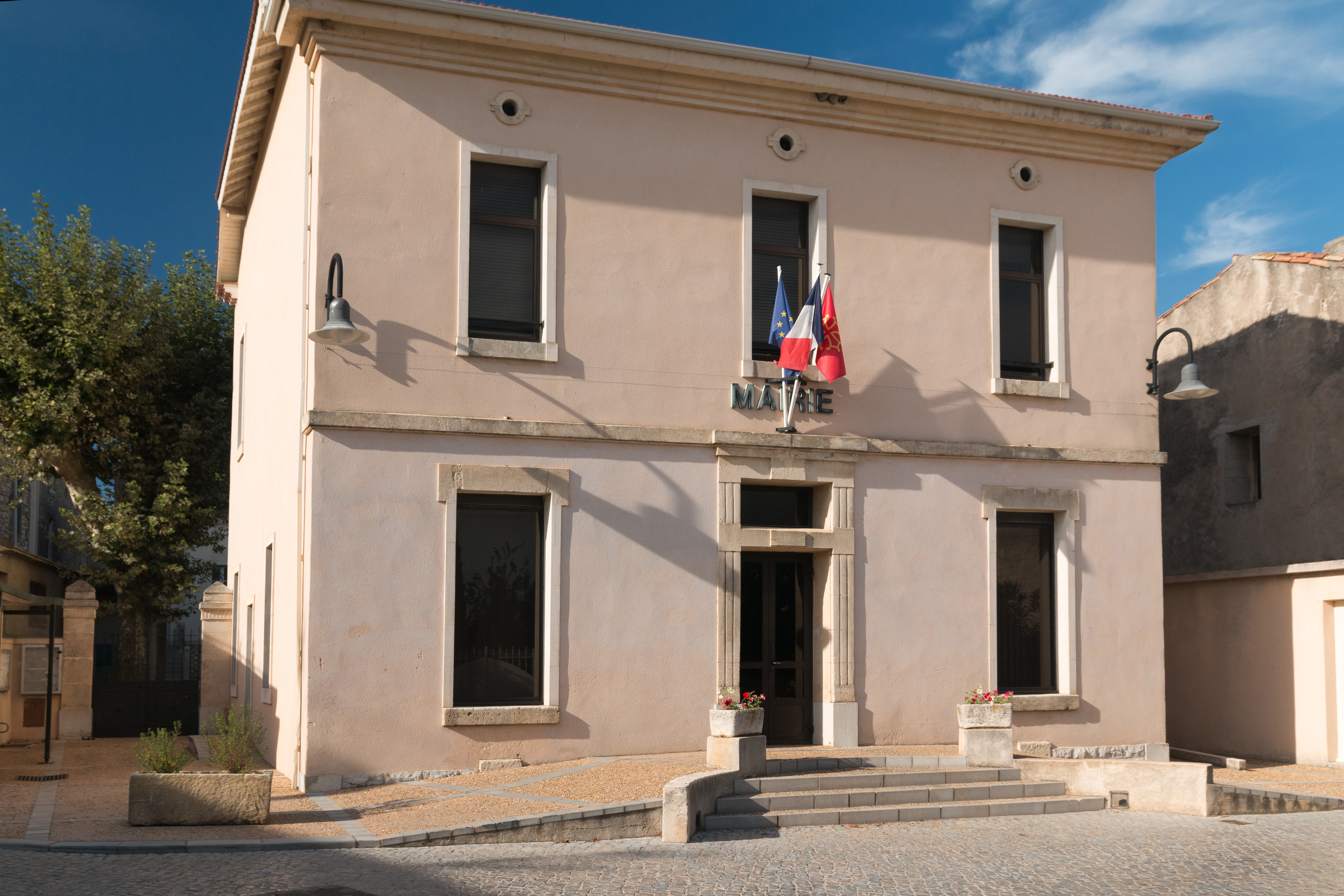 Town Hall of Combas protestant church